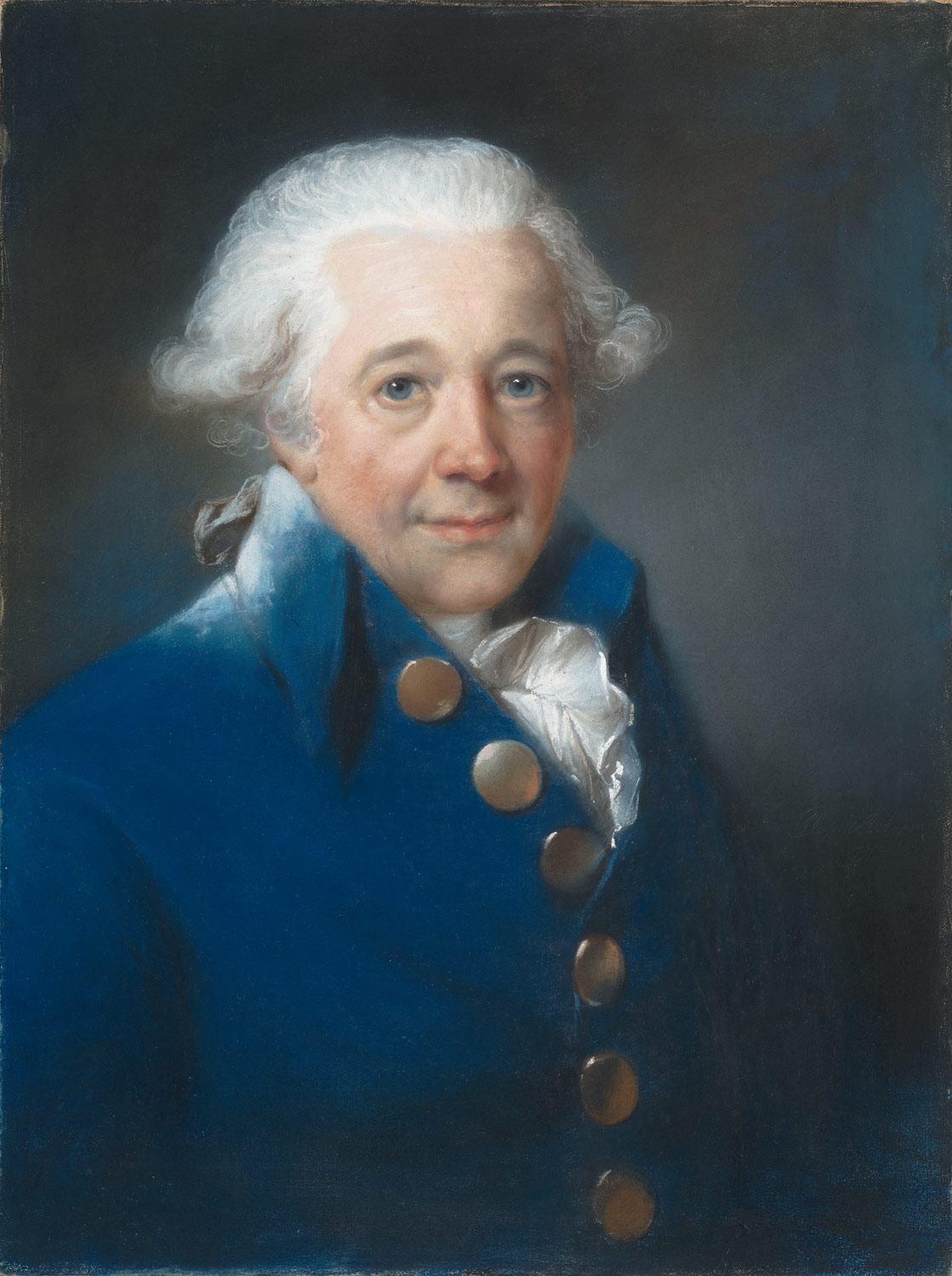 Pastel portrait of William Man Godschall (1720–1802), English landowner.